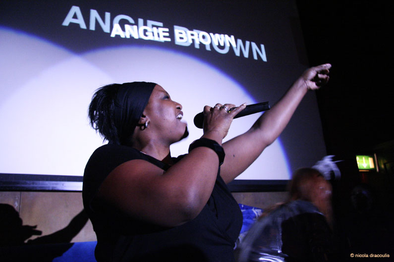 Angie Brown performing at the AKA Bar in London, for the launch of .